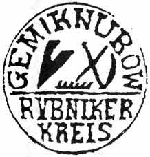 Seal of Knurów Commune, 1902